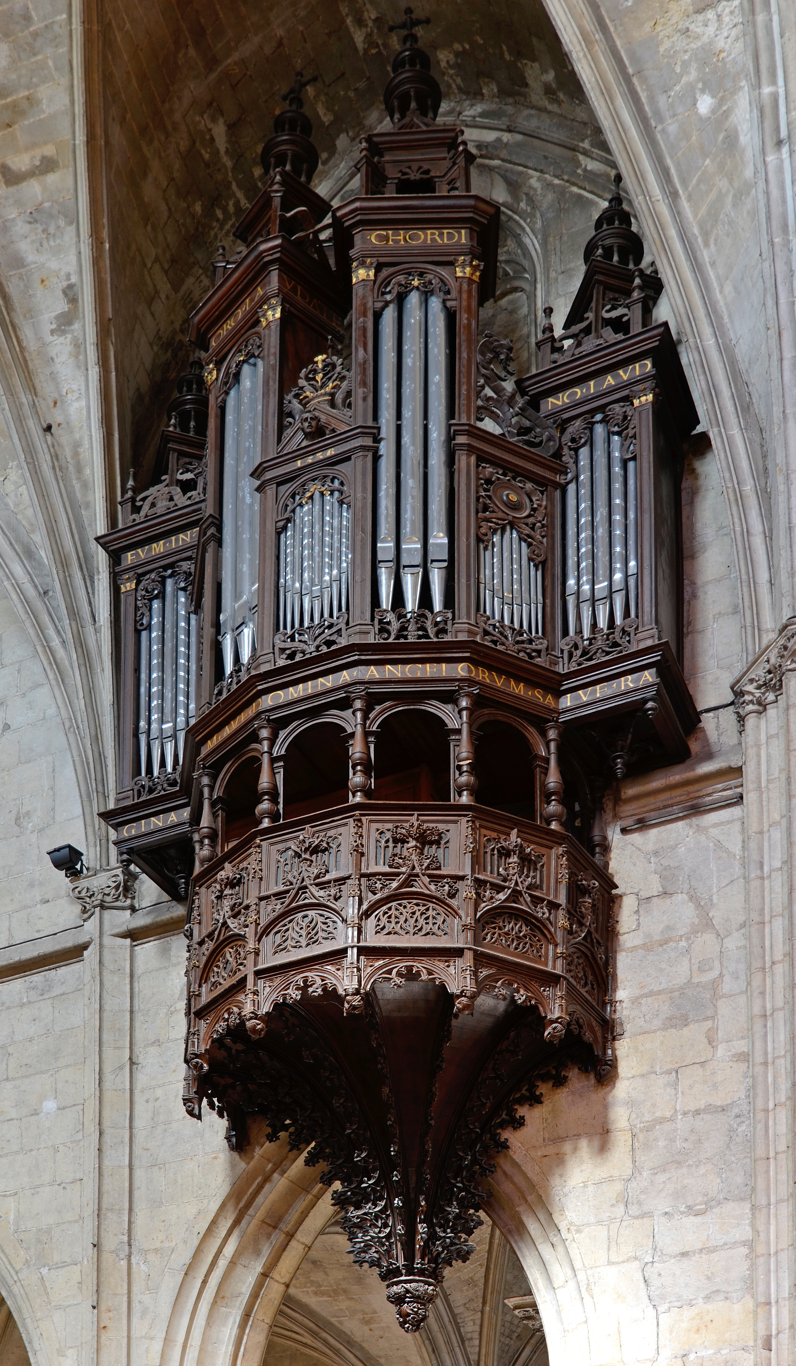 Pipe organ of Notre-Dame-des-Marais church in La Ferté-Bernard (Sarthe, Pays de la Loire, France). .